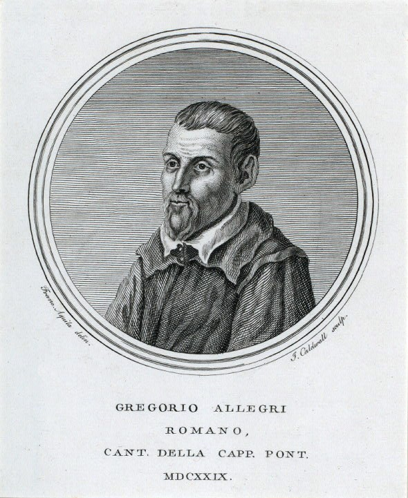 Gregorio Allegri Romano, Italian composer, - Creator: Caldwall, James, 1739-1819 -- Engraver: Aquila, Francesco Faraone , ca. 1676 - ca. 1740 -- Medium: Etching